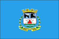 Flags of the city of Antônio Carlos, Minas Gerais, Brazil.